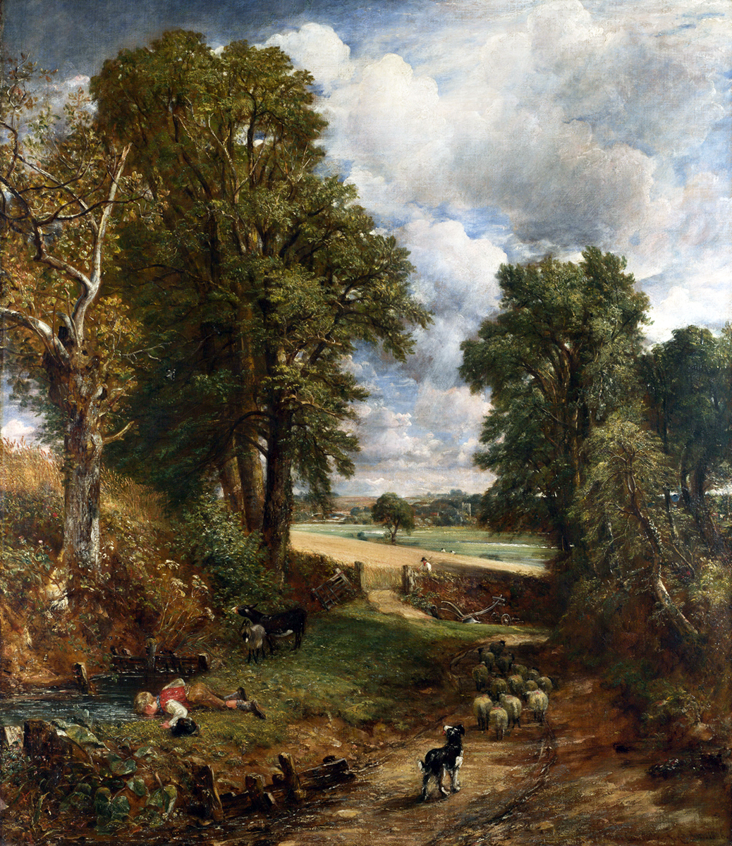 John Constable, "The Cornfield", painted 1826. Size: 56 by 48 inches (143 by 122 cm). National Gallery, London (UK).